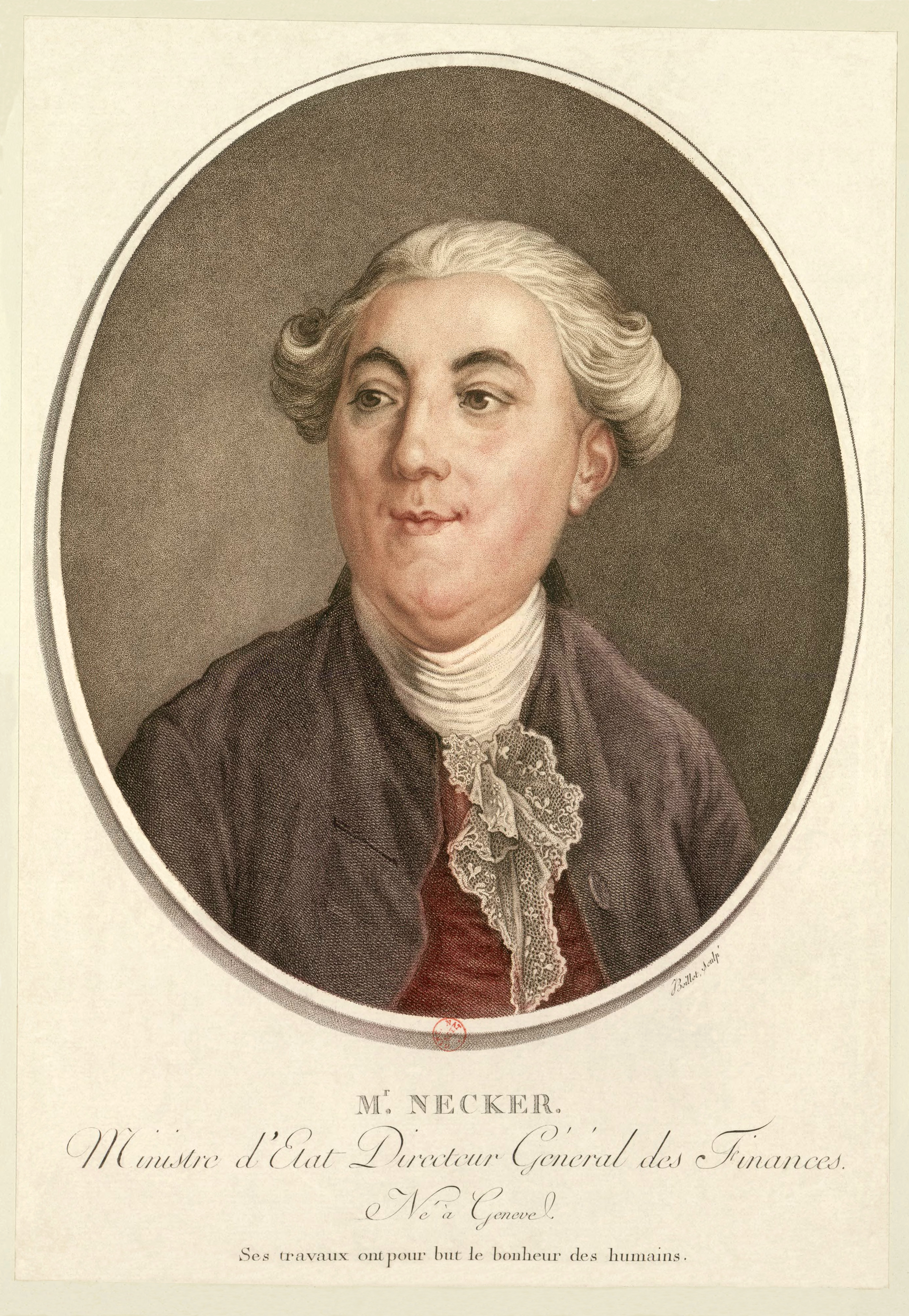 Jacques Necker (1732-1804), State Minister under king Louis XVI of France in 1789